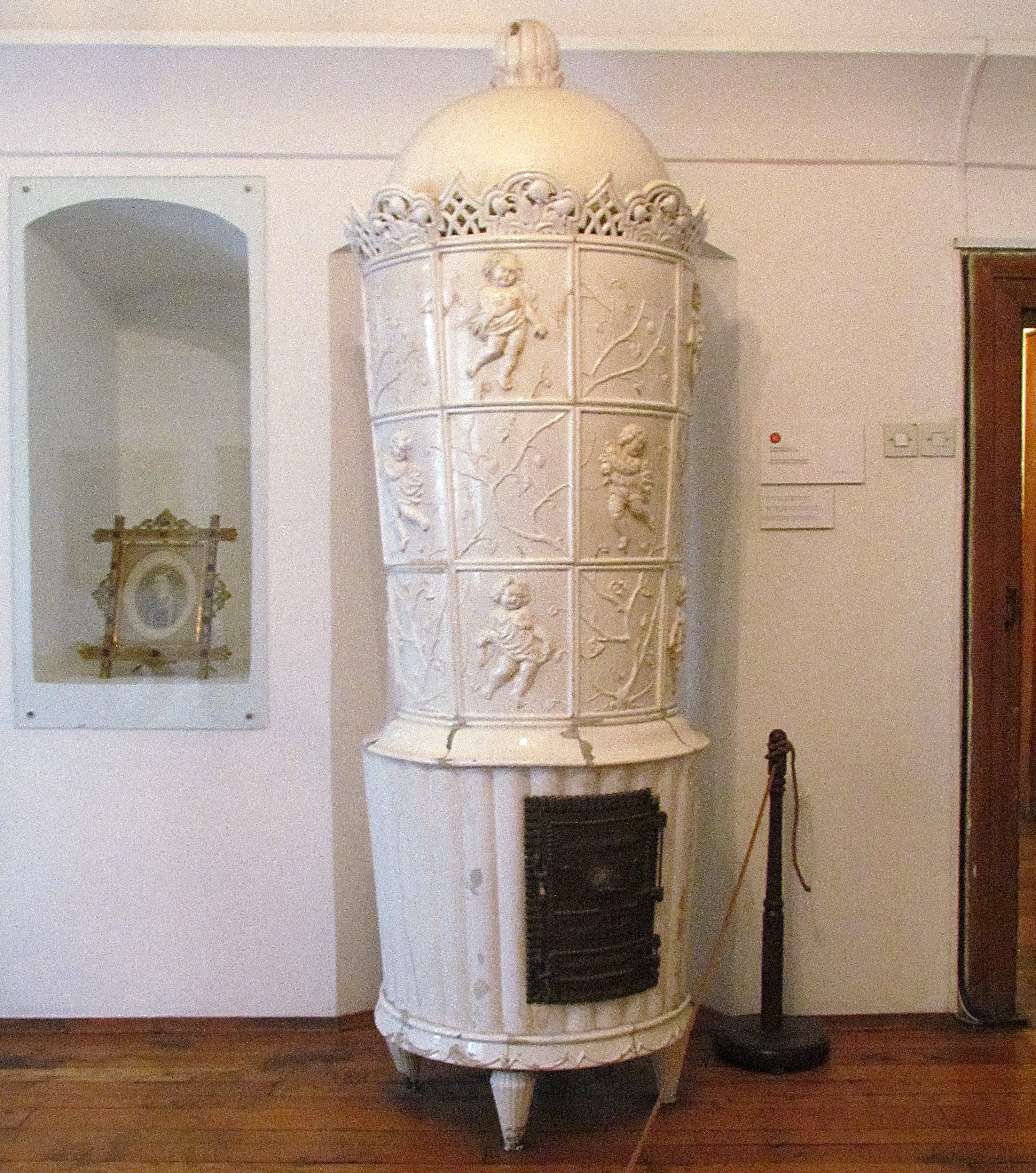 Glazed ceramic stove, Princess Ljubica's Residence